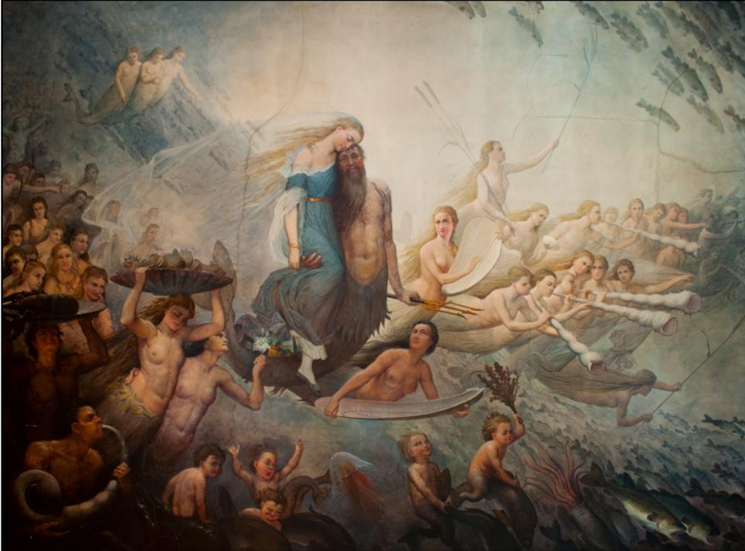 The Agnethe og Havmanden fresco in Agnethestuen in Fuglsang Manor, Lolland, Denmark